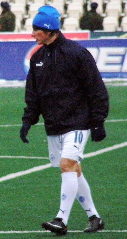 Andrei Arshavin warming up for FC Zenit St.Petersburg